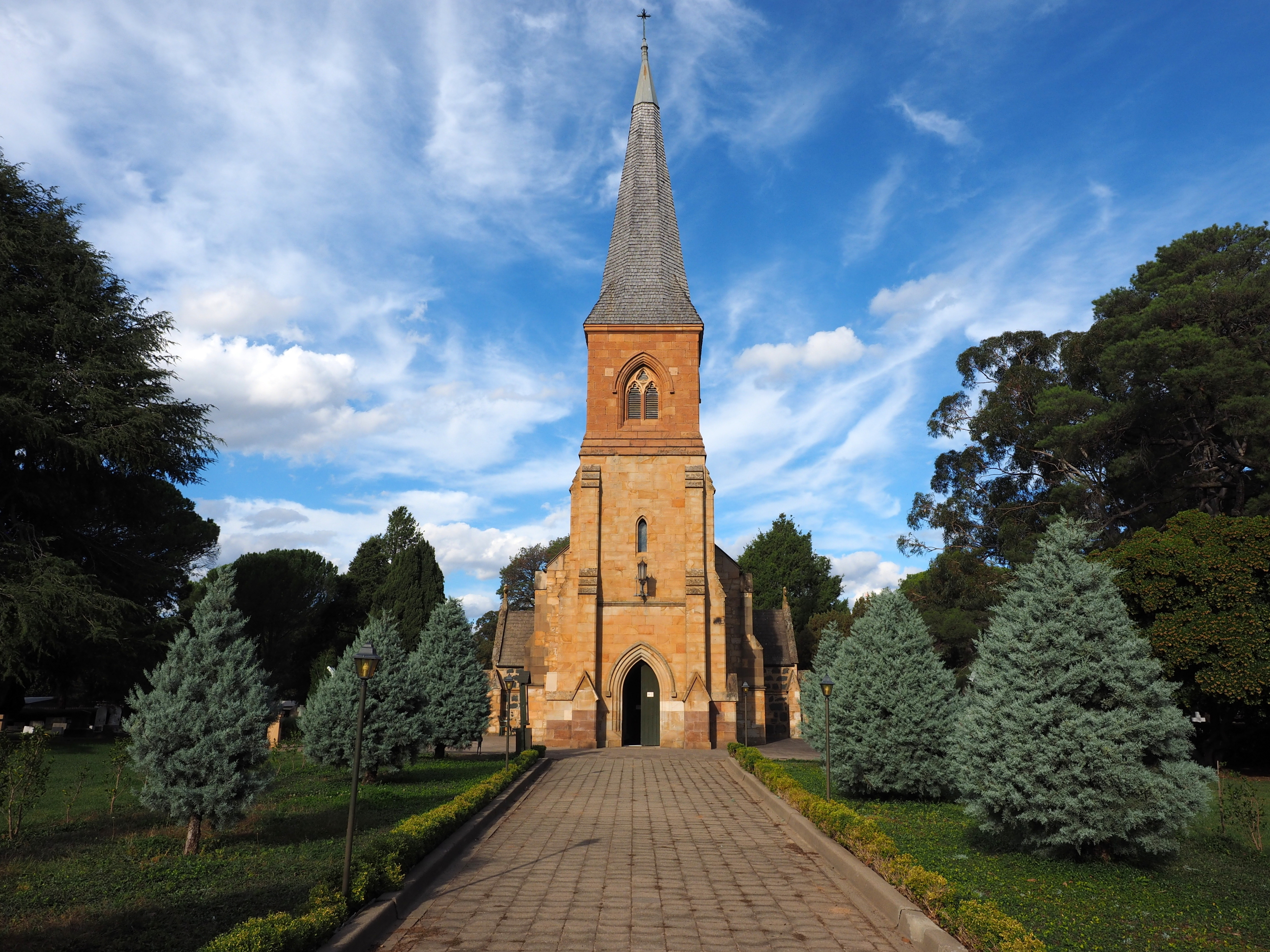 The western face of St John the Baptist Church